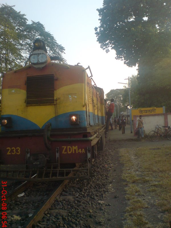 Railway Station keolari